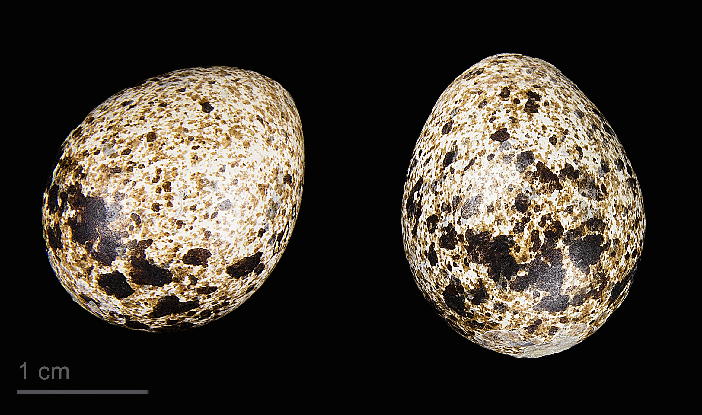 Eggs of Turnix nigricollis Two specimens of the same spawn ; collection of Jacques Perrin de Brichambaut.